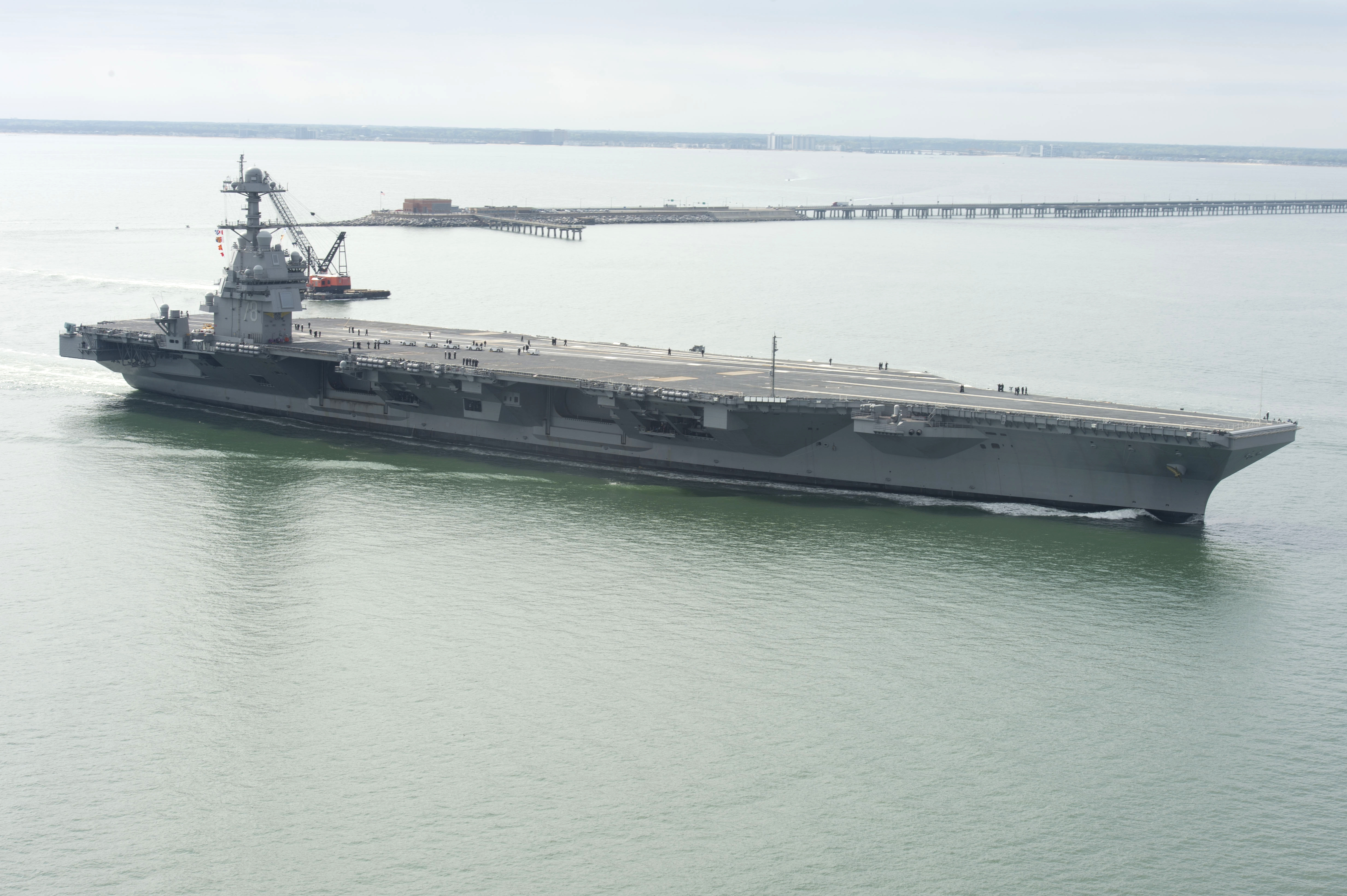 The U.S. Navy aircraft carrier USS Gerald R. Ford (CVN-78) arrives at Naval Station Norfolk, Virginia (USA), after returning from Builder's Sea Trials and seven days underway.